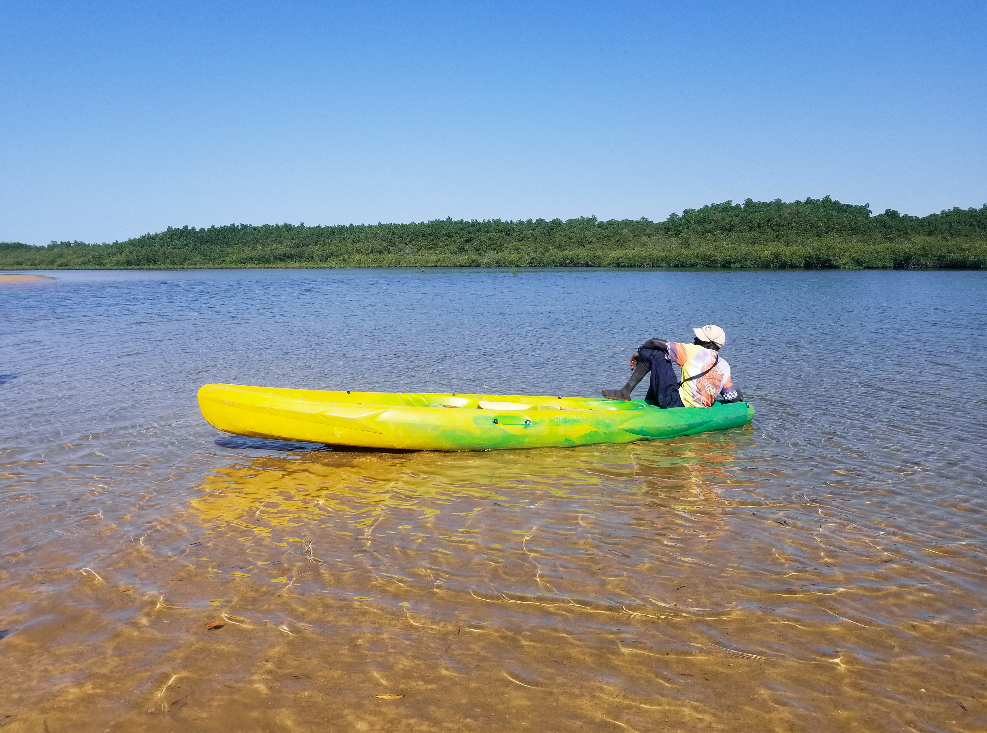 This is an African guide taking some rest in kayak while tourists are wandering around. This is an image with the theme "Africa on the Move or Transport" from: Senegal